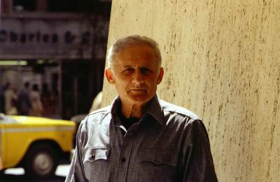 Photograph